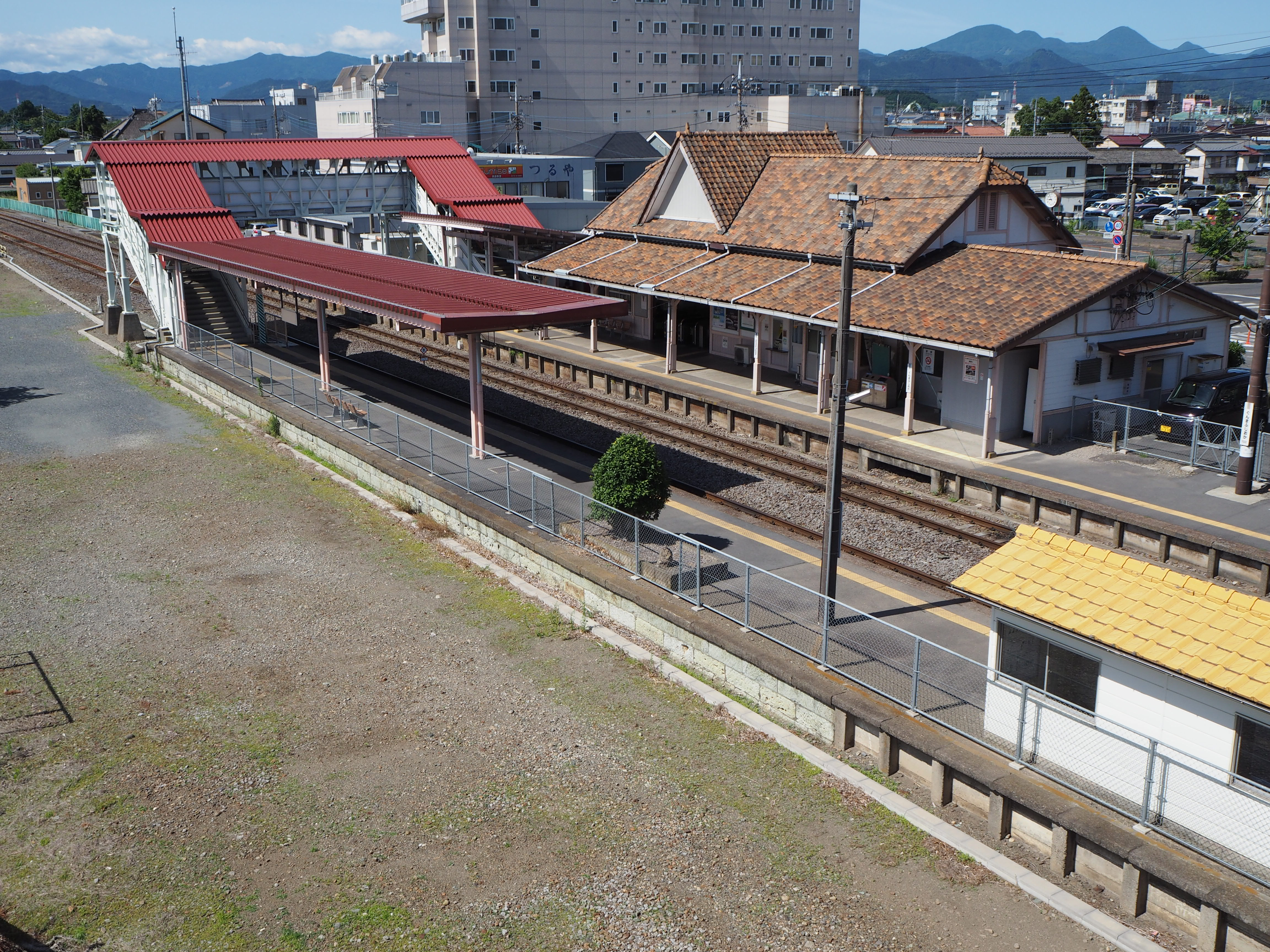 Platforms of Gunma-Fujioka Station